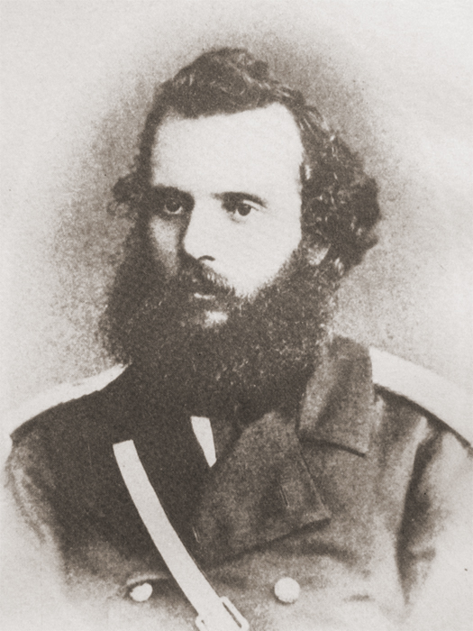 Petko Karavelov